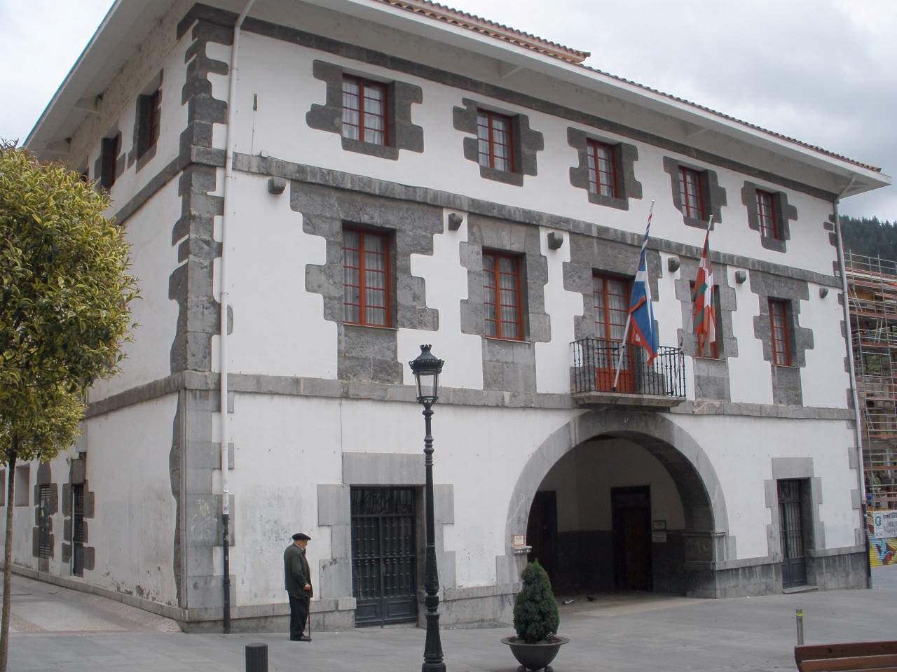 Ayuntamiento de Arrigorriaga, Vizcaya